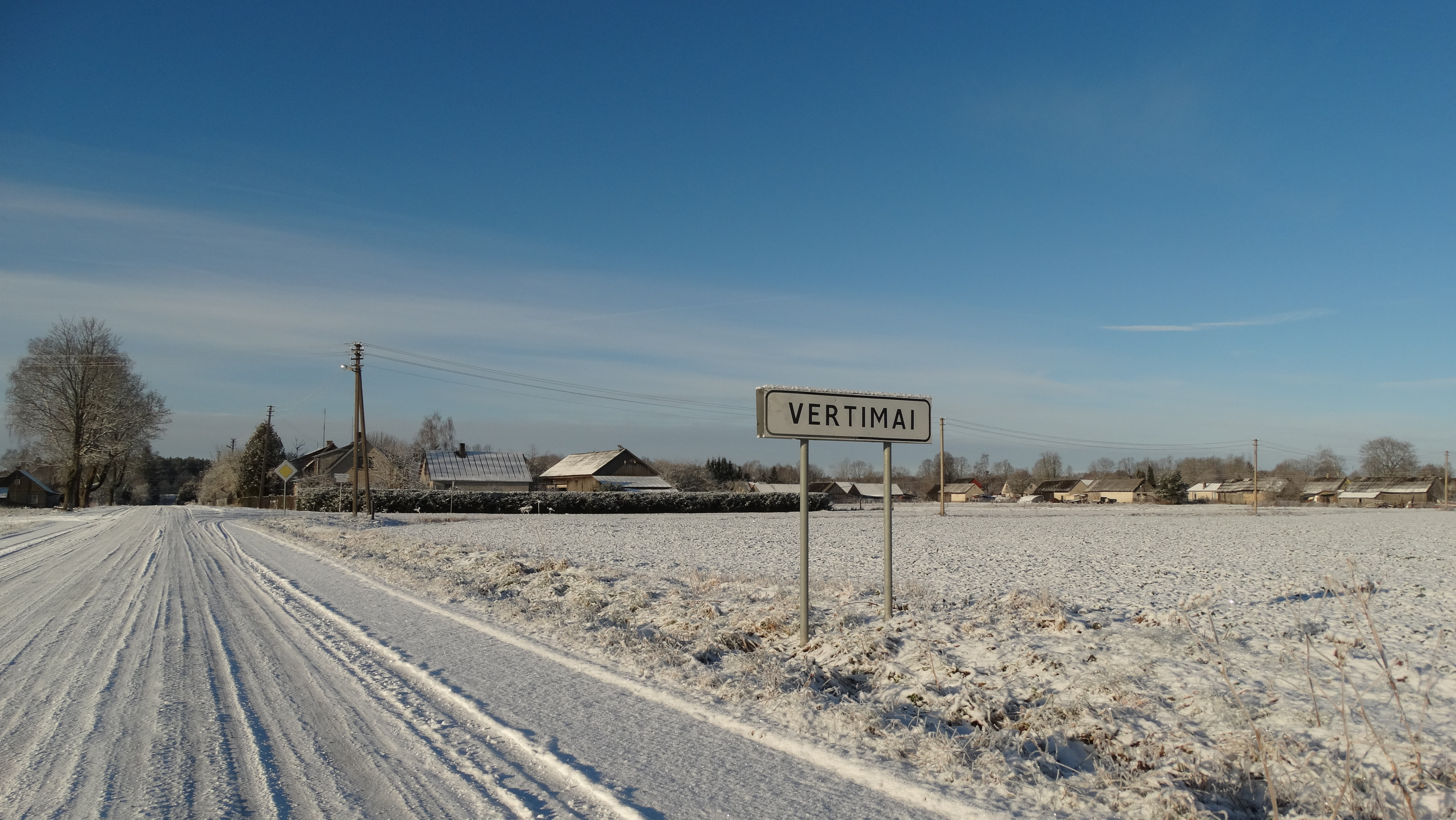 Vertimai, Jurbarkas district, Lithuania